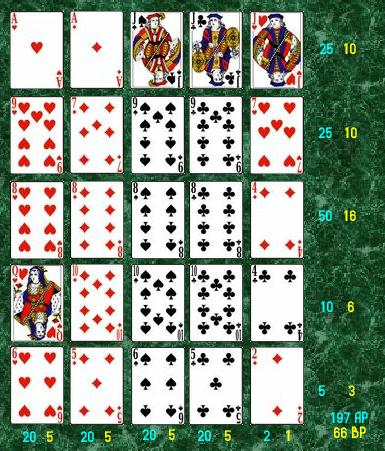 This is a diagram of the game of Poker Solitaire, based on an actual layout. The image is made in Microsoft Paint and the cards used were based on the SVG Playing Cards.